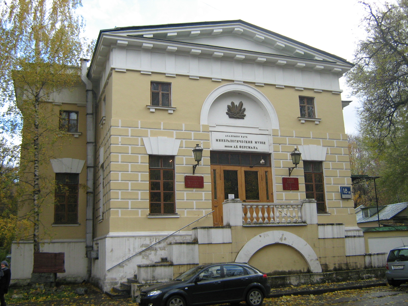 The Fersman Mineralogical Museum in Moscow. A building from the Moscow estate of Imperial Russian statesman Alexey Orlov-Chesmensky (1737-1807).